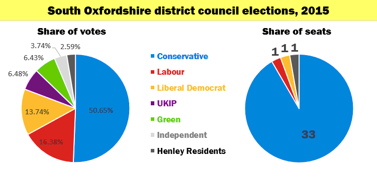 Pie charts of results of the South Oxfordshire District Council election, 2015. They show (left) the share of votes for each party and (right) the number of candidates elected from each party.